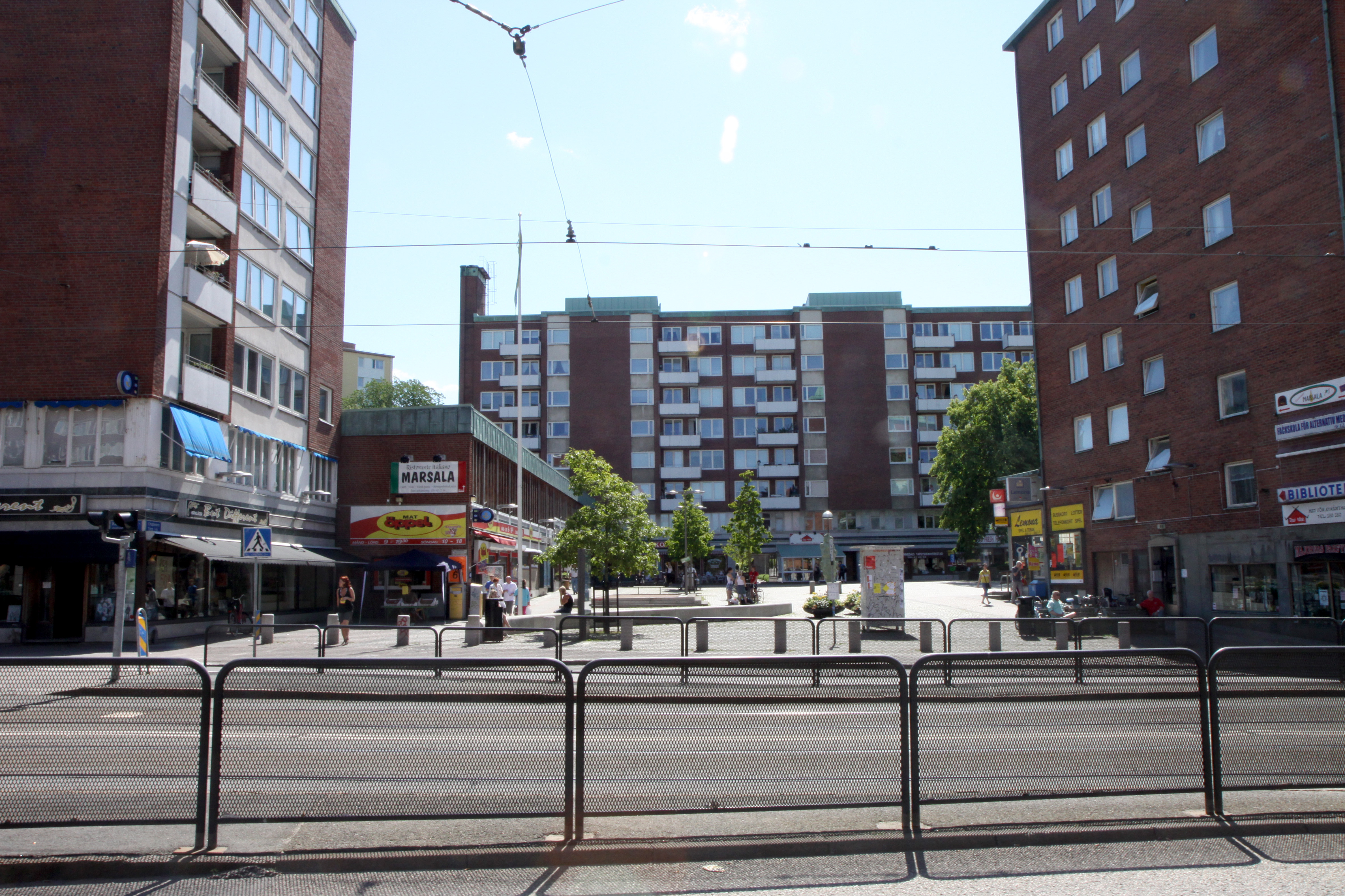 Chapmans torg in Gothenburg, Sweden